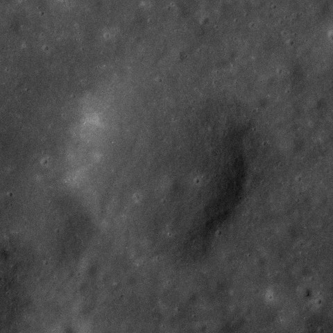 Cochise crater, Taurus–Littrow valley, on the moon. Sun elevation 46 deg., spacecraft altitude 112 km.